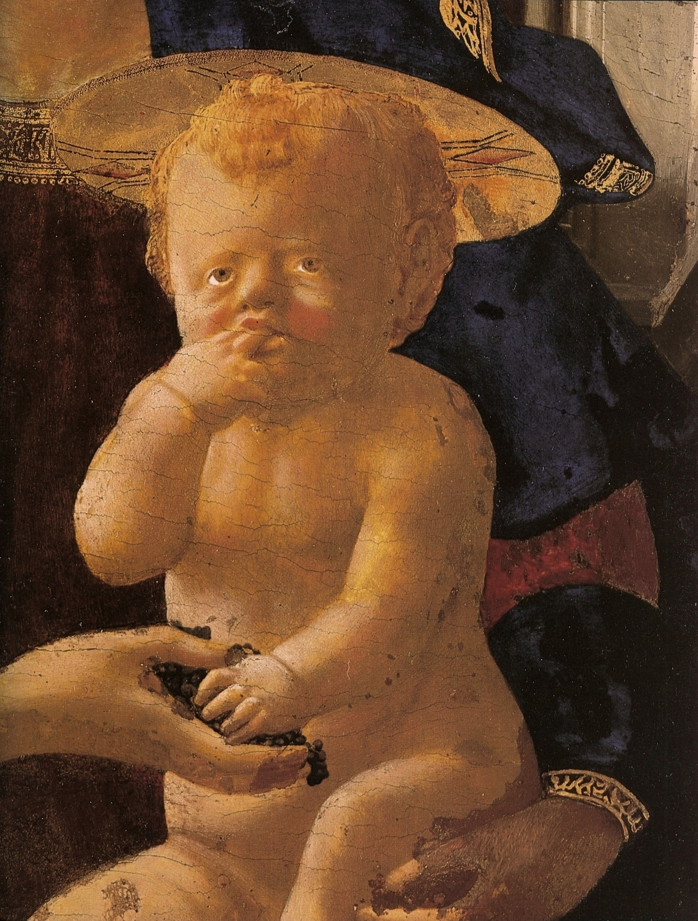 Masaccio._Madaonna_and_Child._Detail._1426._National_Gallery,_London.